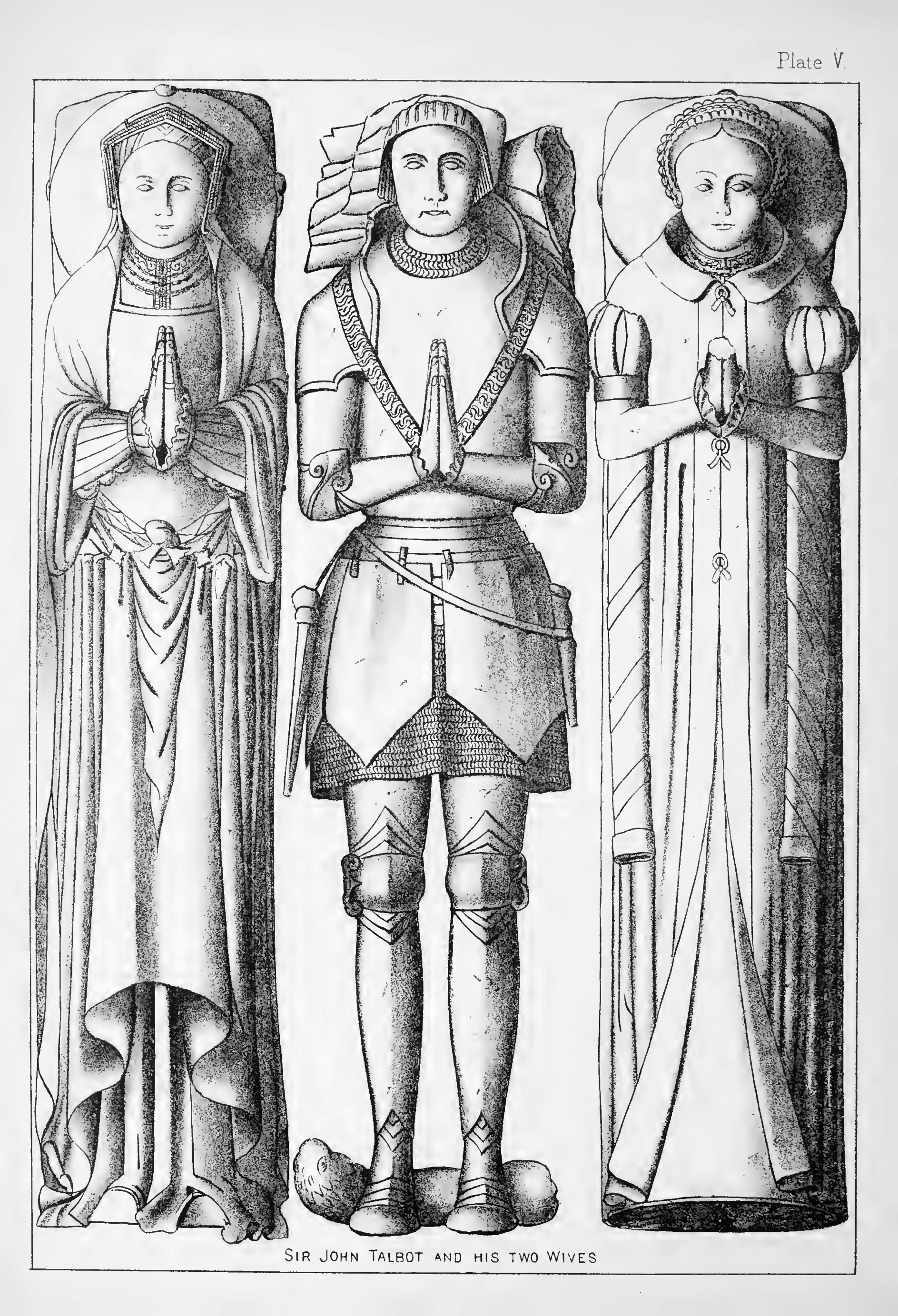 Bromsgrove Church of St John, memorial to the Talbots, John and his two wives Margaret (née Troutbeck) and Elizabeth (née Wrottesley)